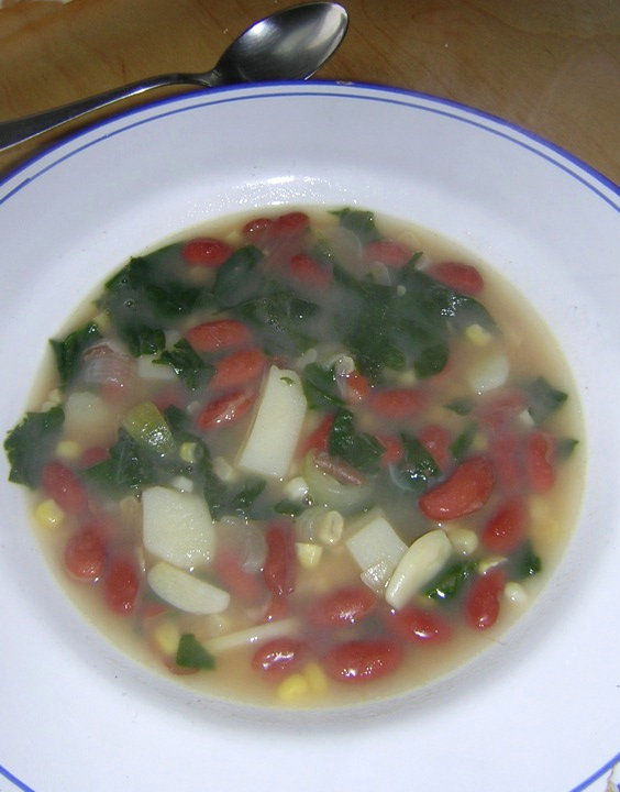 Sorrel, potato, corn and kidney bean soup